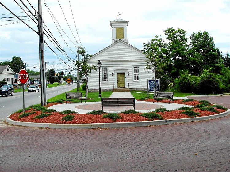 Old Town Hall, Hebron, Connecticut. Part of the Hebron Center Historic District.